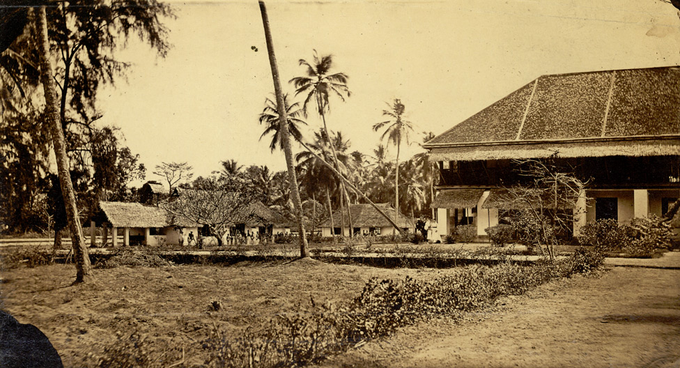 Anglo-Vernacular School, Mavelikkara, Travancore-1865